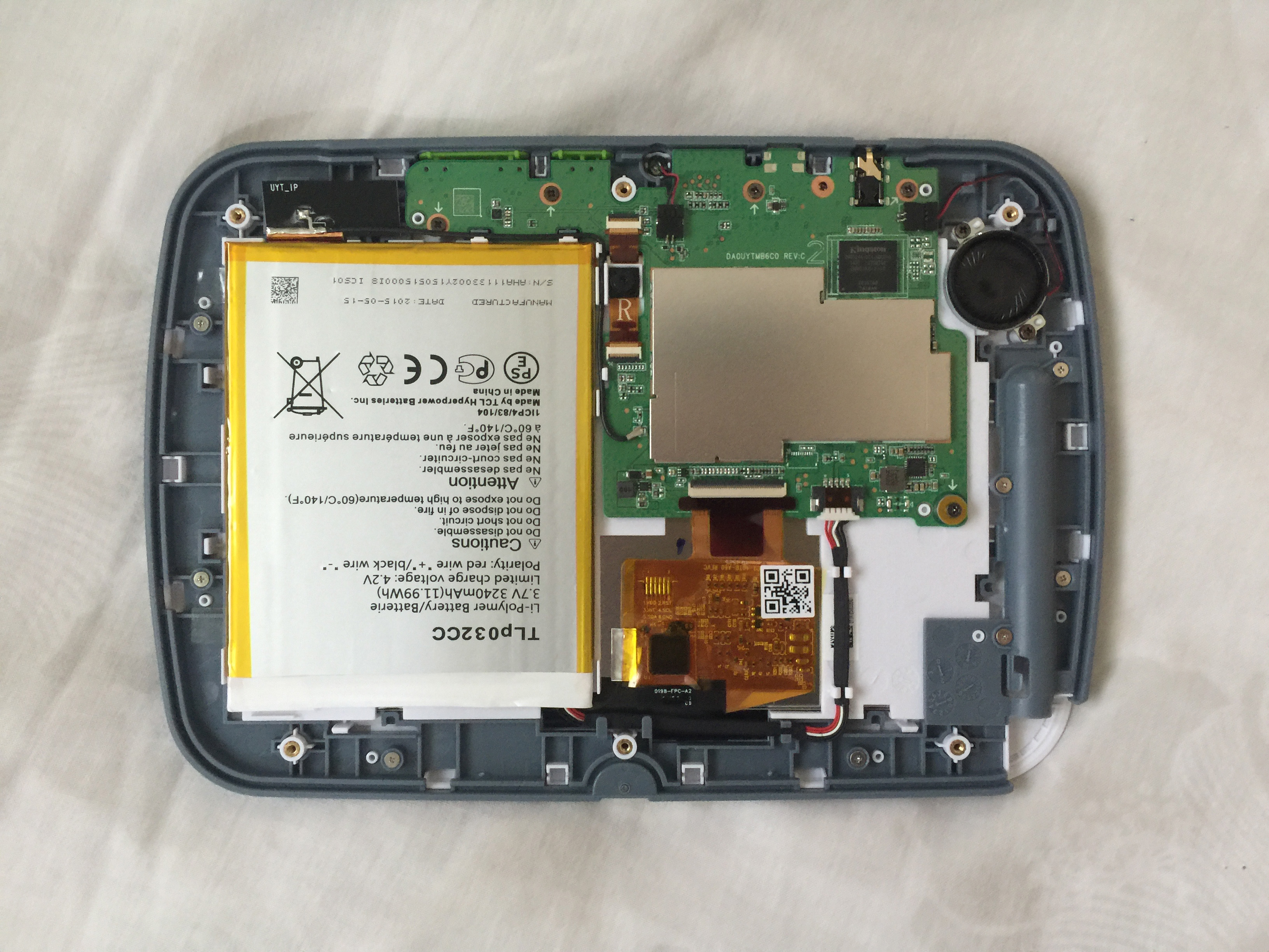 Photo of a LeapFrog Epic with the back cover removed, showing its internal components. Hidden within the RF shielding is the MediaTek MT8127 and RAM chips amongst other things. To the upper right of the motherboard below the headphone jack is the EMMC flash chip.